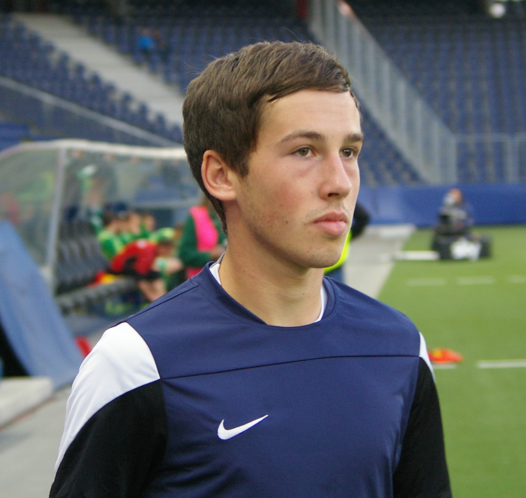 League match Austria 2nd league